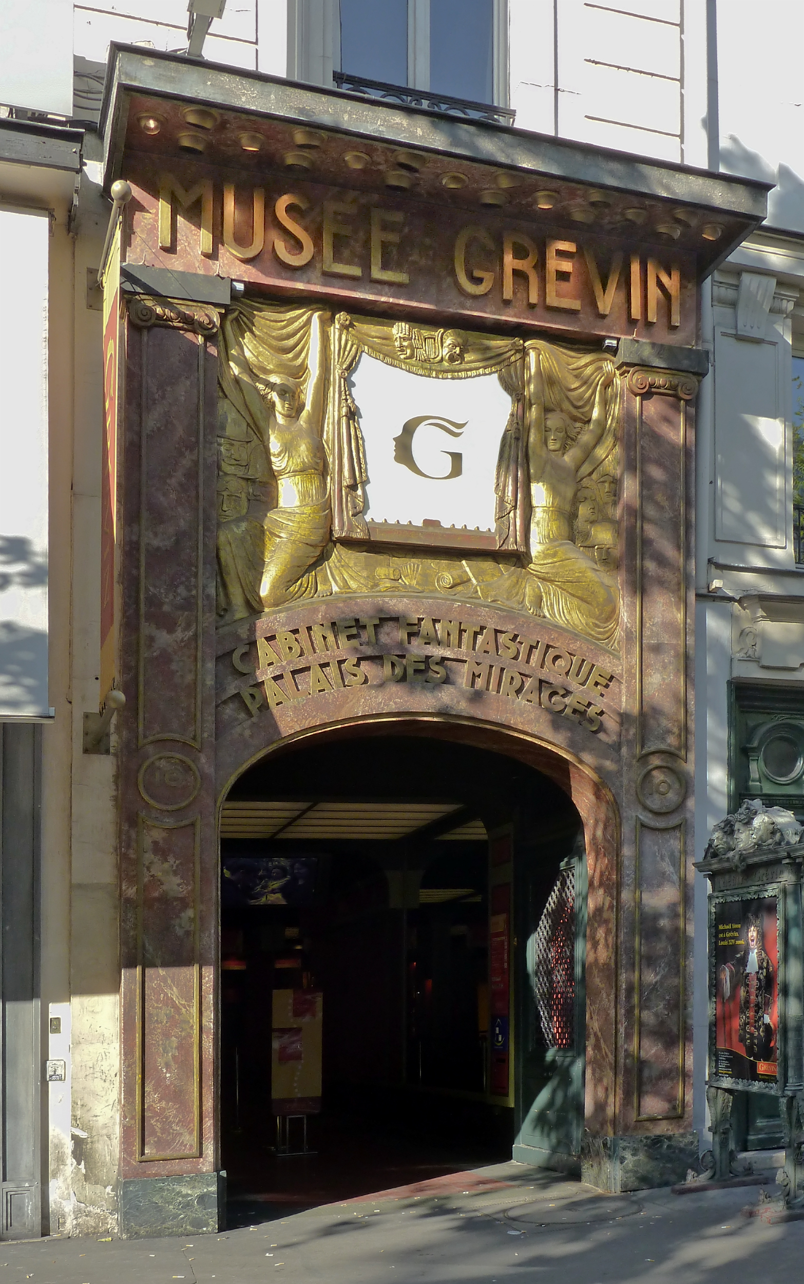 Facade of the Musée Grévin in Paris, France.